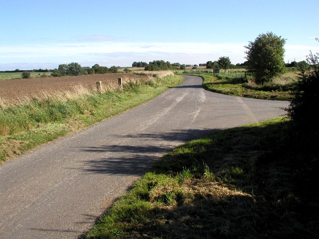 The Fitling to Owstwick road, East Riding of Yorkshire, England.Taken at the minor junction at MR: TA25453395